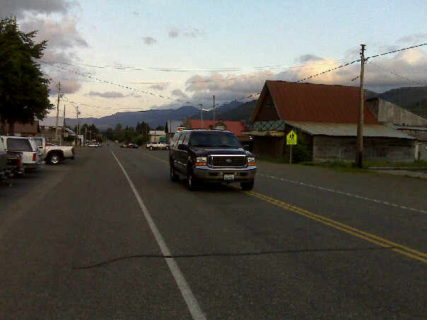 A view of Easton, WA showing some of the abandoned buildings